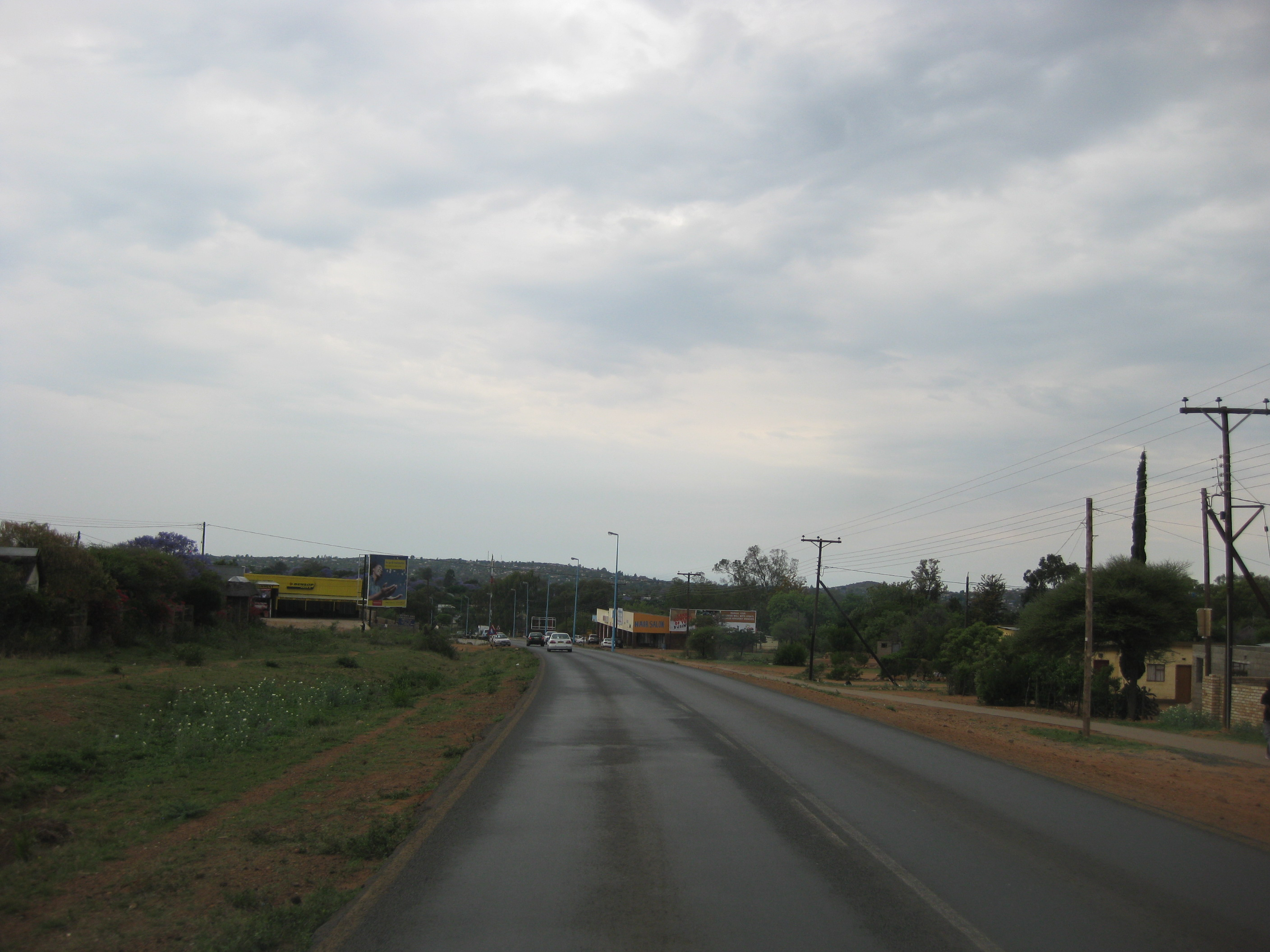 Road into Kanye, Botswana.